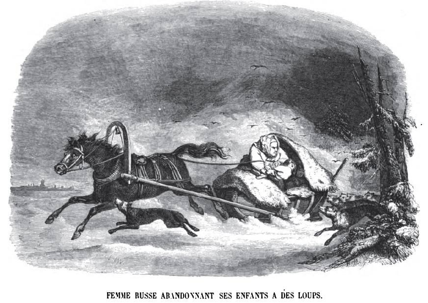 Russian woman throwing her babies to wolves (Geoffroy, 1845).